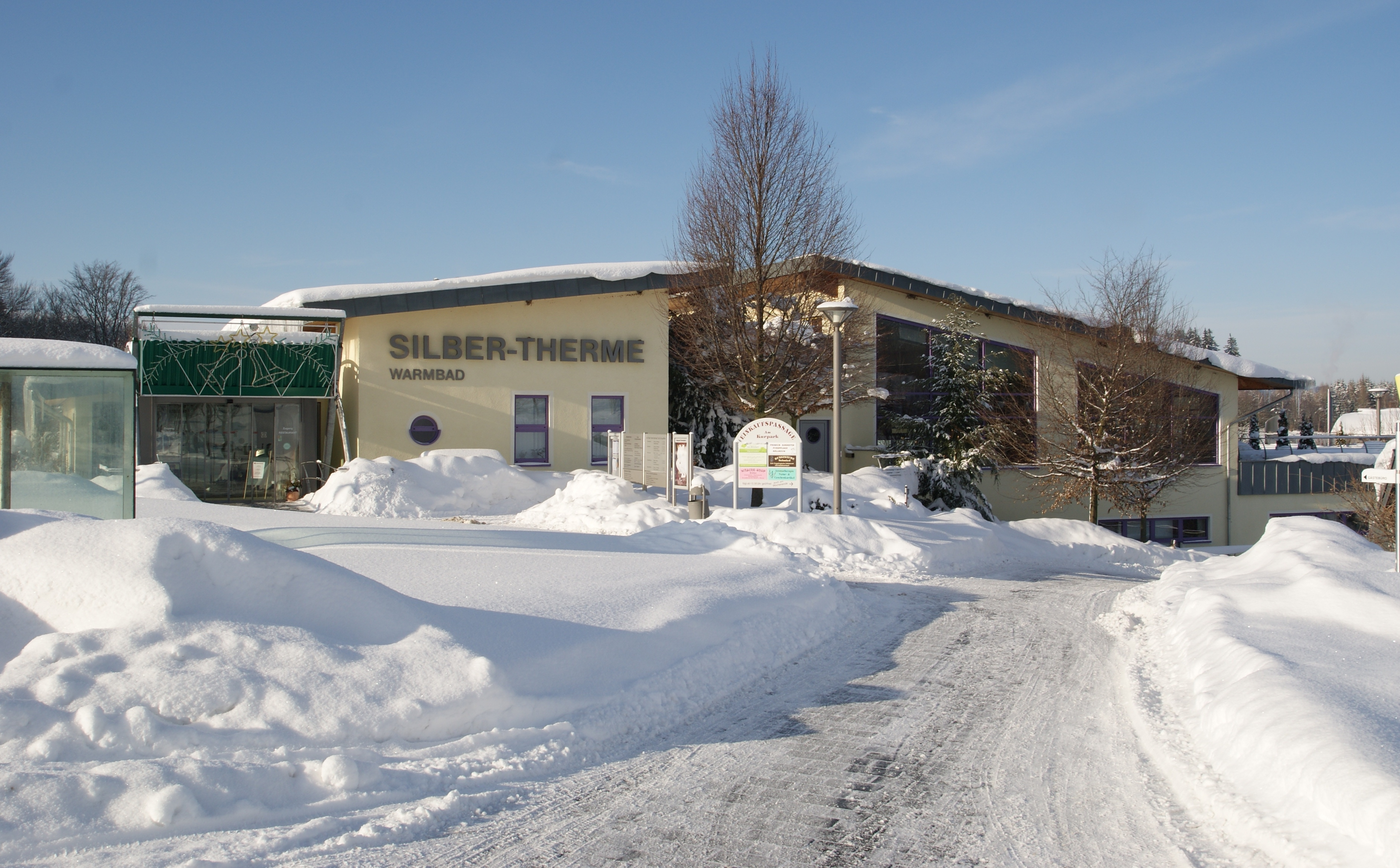 Silbertherme Warmbad